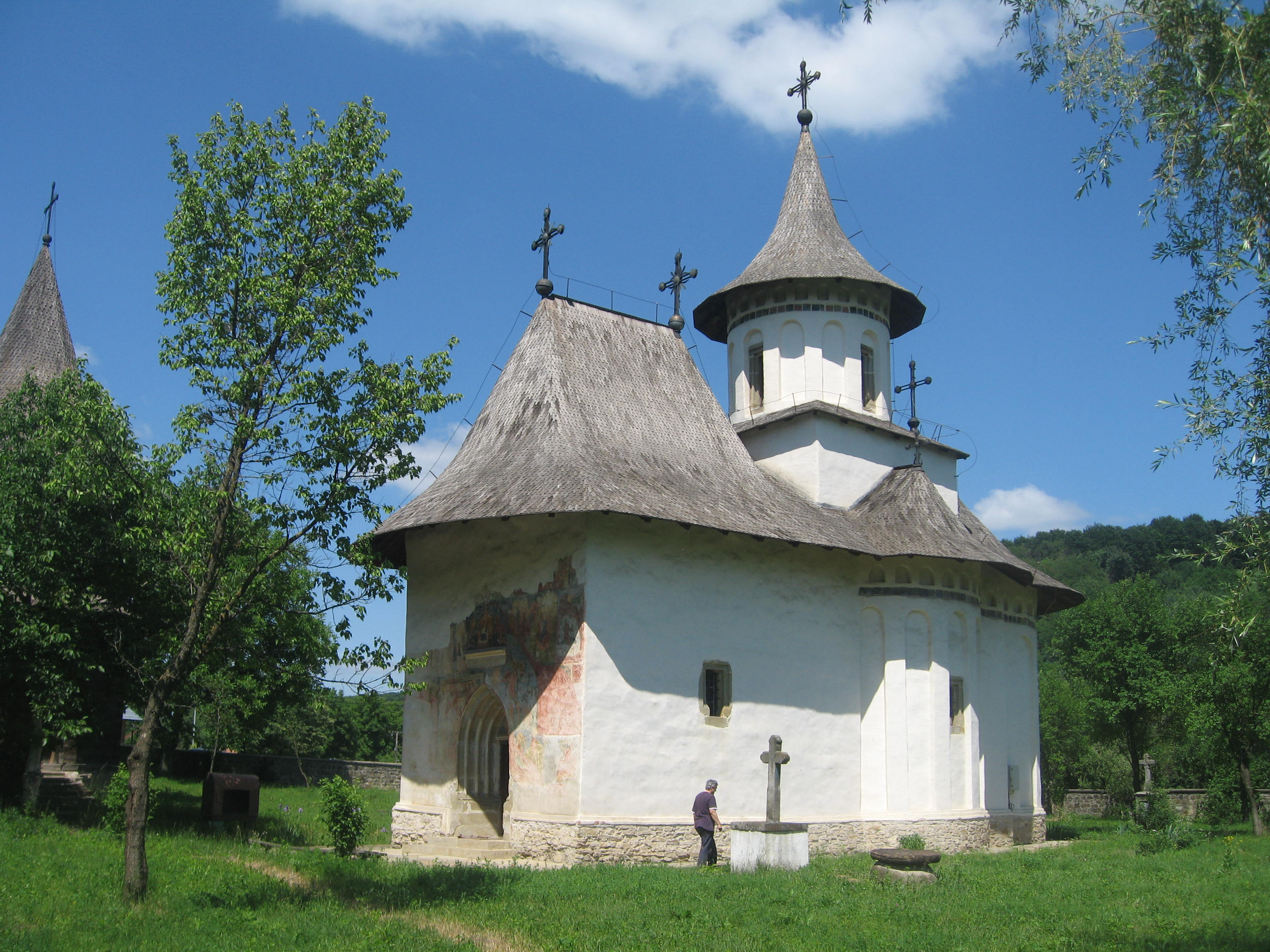 The Church of Pătrăuţi, Romania, UNESCO monument